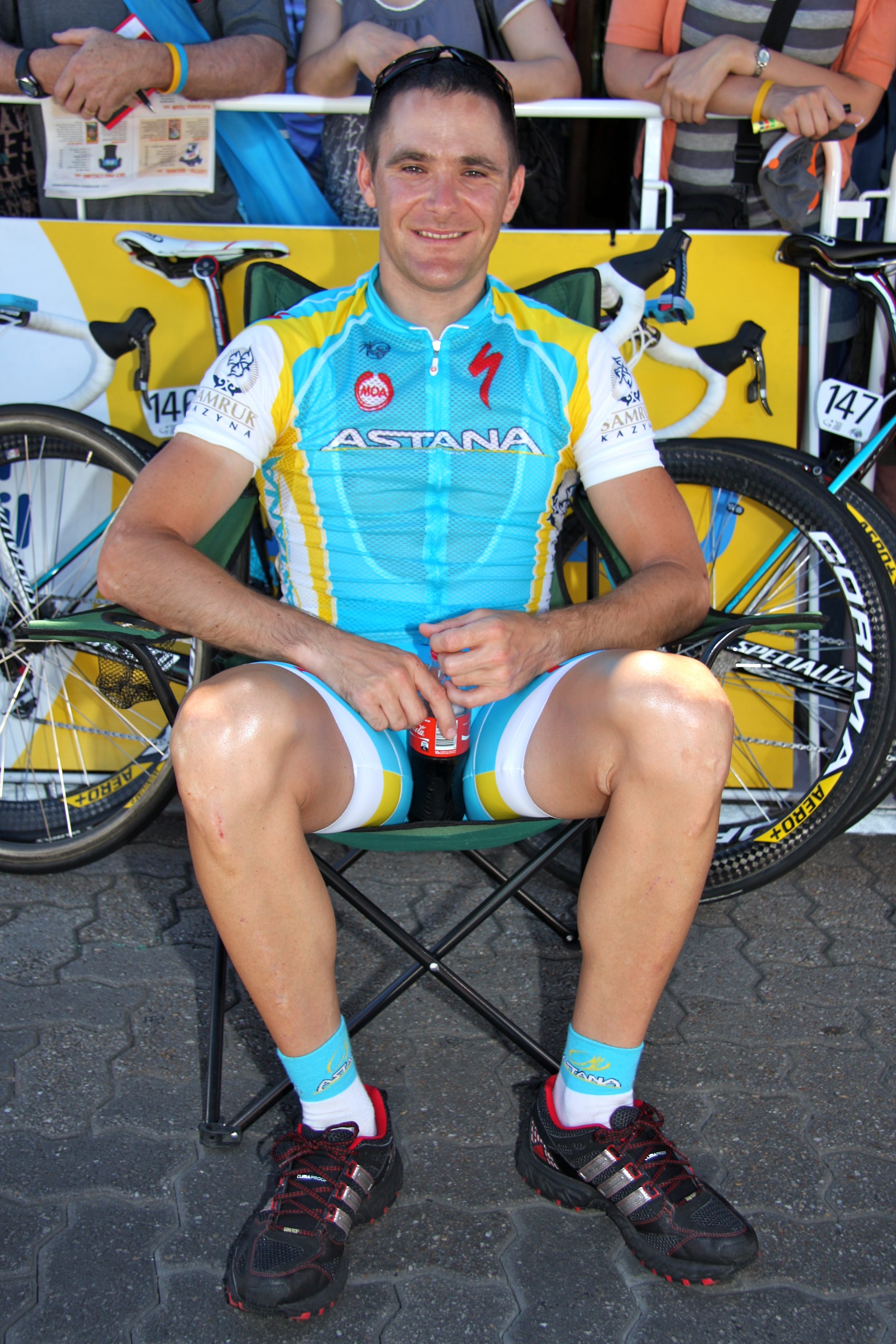 Slovenian professional cyclist Borut Božič (Astana) captured at 2012 Tour Down Under in Australia.